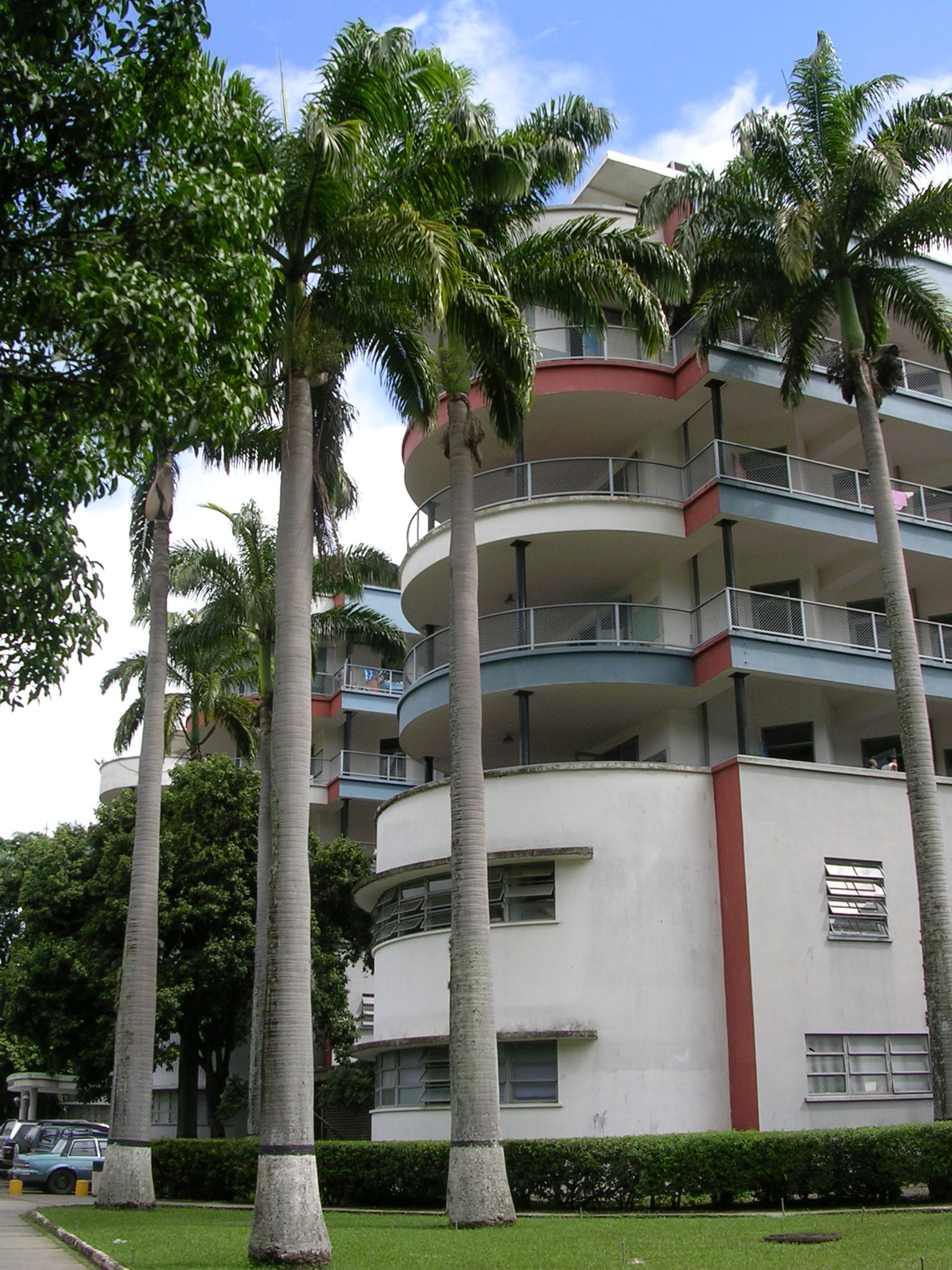 Streamline moderne style University Hospital — at the Central University of Venezuela, Caracas. Modern movement architecture in Venezuela.